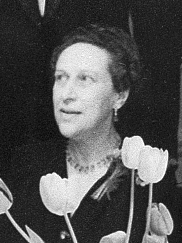 L0016246 A dinner to celebrate Melanie Klein's 70th birthday. Credit: Wellcome Library, London. Wellcome Images A dinner to celebrate Melanie Klein's 70th birthday, at Kettner's, London. W.1, 1952. Photograph Published: - Copyrighted work available under Creative Commons Attribution only licence CC BY 4.0